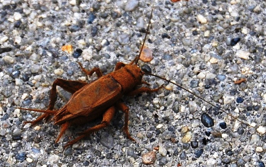 A cricket